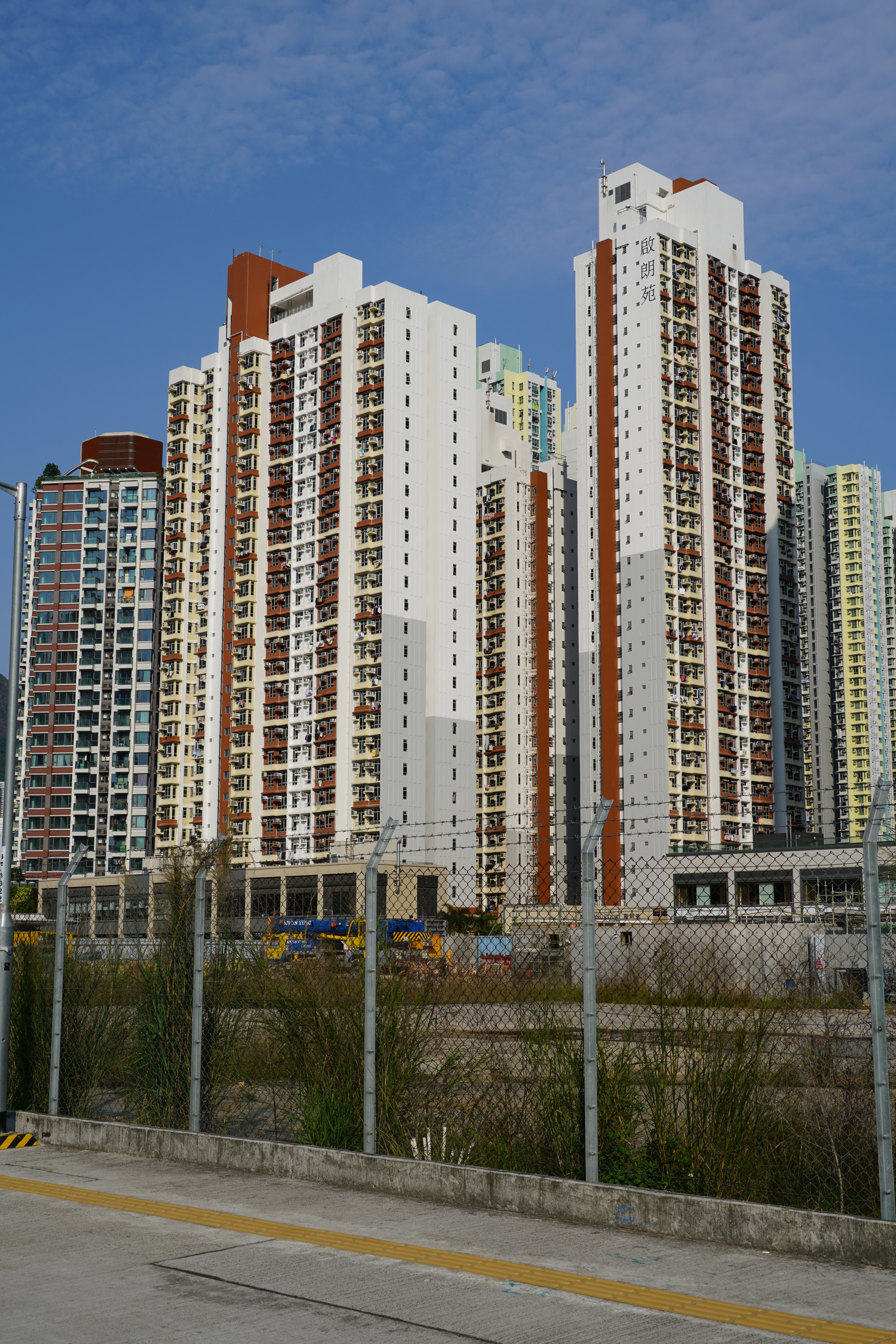 Kai Long Court, Hong Kong.